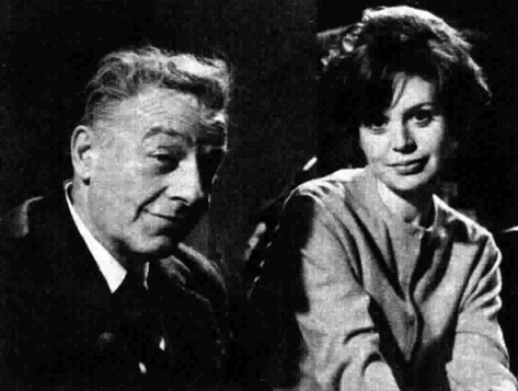 Italian actors Franco Scandurra and Valeria Sabel